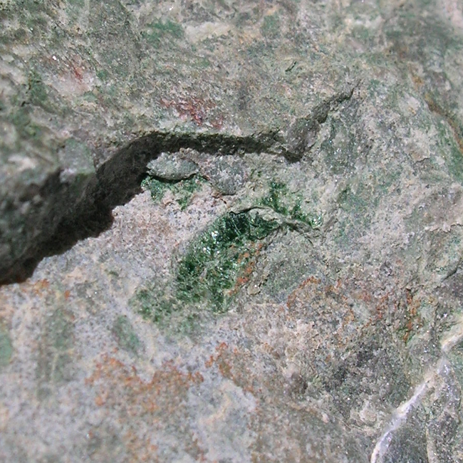 Glauconite (Field of View 20 mm) Locality: Johnson County, Wyoming, USA A patch of green, micaceous glauconite in Cambrian limestone conglomerate. Glauconite very rarely exhibits a micaceous habit, despite being a mica group mineral. The patch is 7 mm long.